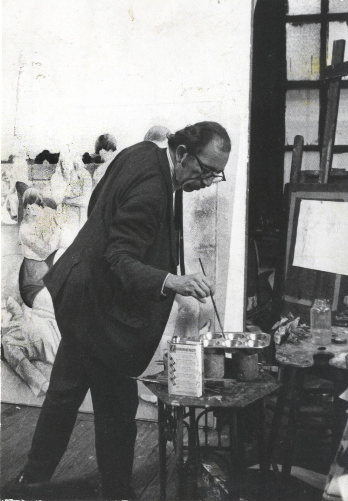 Sidney Tillim, 1970, with Lamentation (for Kate Houskeeper)